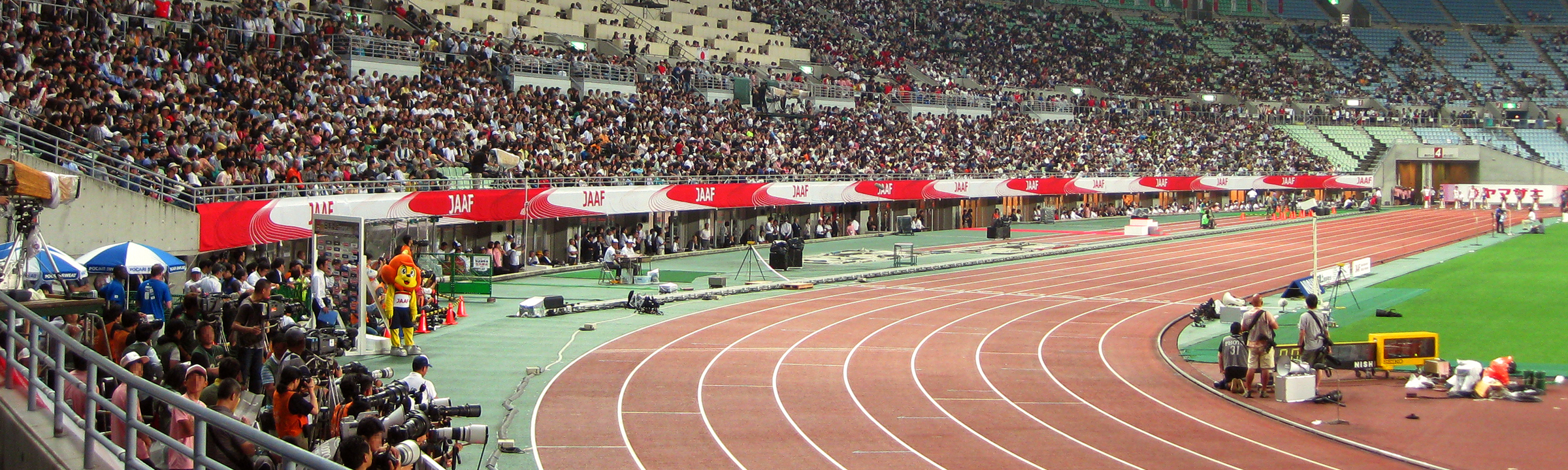 Crowds on stands waiting for start of the men's 100 metres final at the 96th Japan Championships in Athletics - This photo was taken on 9 June, 2012 at Nagai Stadium, Osaka.